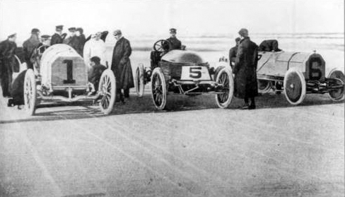 W. K. Vanderbilt, A. MacDonald, and H. T. Thomas on Ormond-Daytona Beach on February 17, 1905.